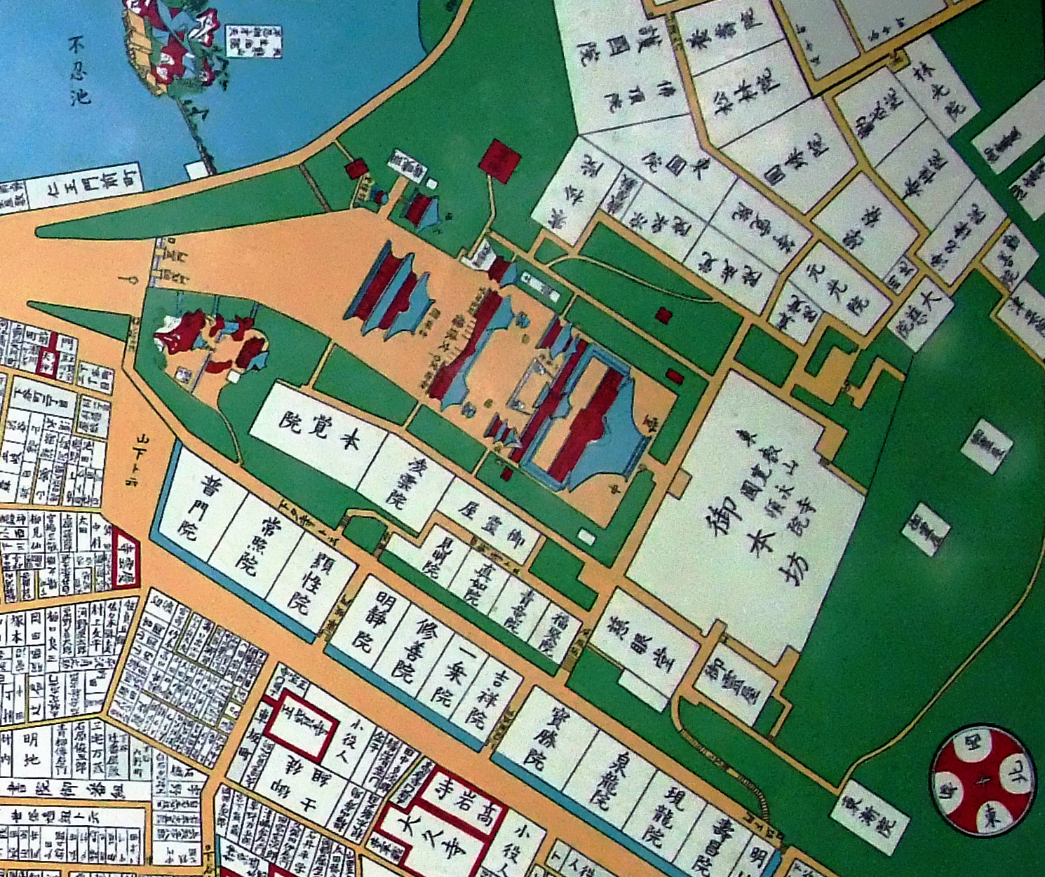 Kan'ei-ji in the end of Edo period